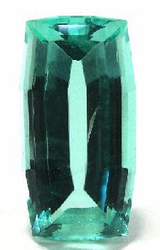 Phosphophyllite Locality: Unificada Mine, Cerro de Potosí (Cerro Rico), Potosí City, Potosí Department, Bolivia (Locality at ) Size: thumbnail, 1.9 x 1 x 0.5 cm Phosphophyllite (faceted) 10.43 carats I am not normally into faceted gems, but when they get this rare and this gorgeous, and merge with mineralogical rarity, how could i say no? I am told confidently by gem trade experts that this is the biggest and best on the market in years and is certainly among the top cut phosphos known to exist. It is an old stone, cut decades ago and long stashed away with the specimens in a prominent mineral collection. This is an IMPORTANT collector piece and , without a doubt, an investment-grade gem. It is as nearly clean as you can ask for in such rare old material, and I am told that the cut is of quite high quality as well as that it is the best seen for sale in over a decade. THERE IS NO COLOR IN MINERALS LIKE THAT OF A PHOSPHO!!!